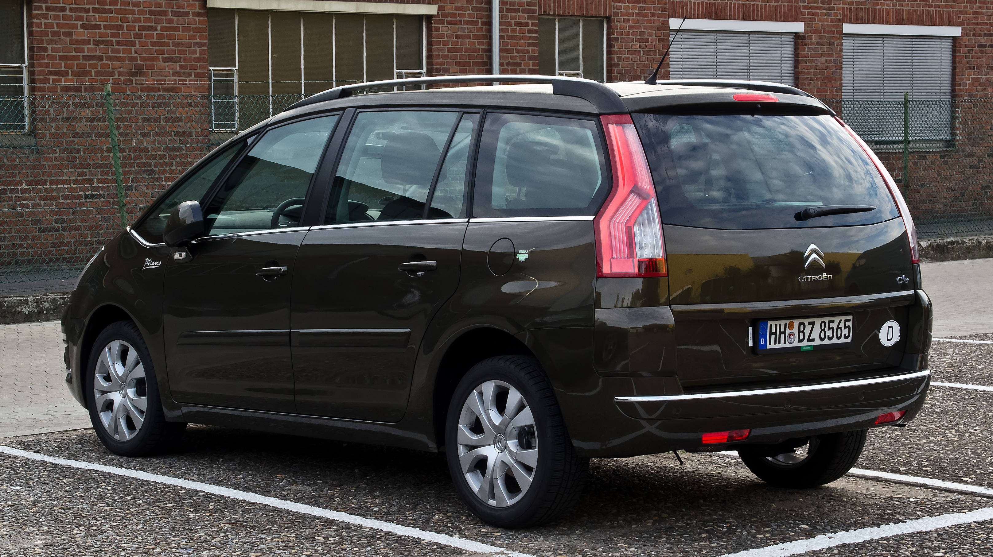 Citroën Grand C4 Picasso HDi 150 Business Class (Facelift)